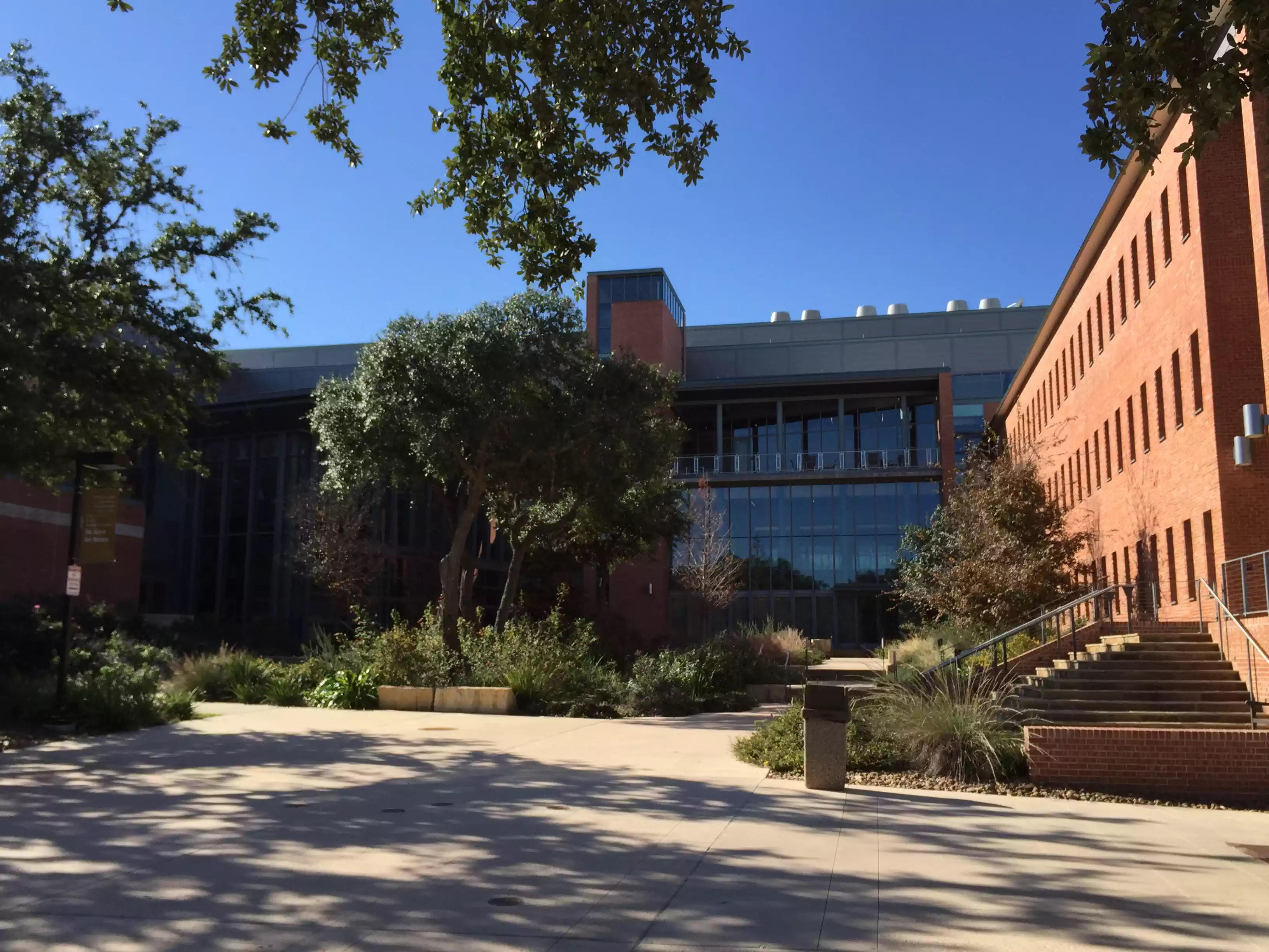 Trinity University Center for Science and Innovation Building